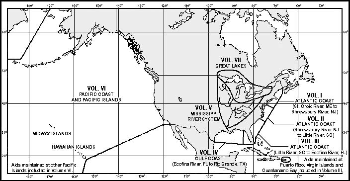 Limits of Light Lists Published by U.S. Coast Guard